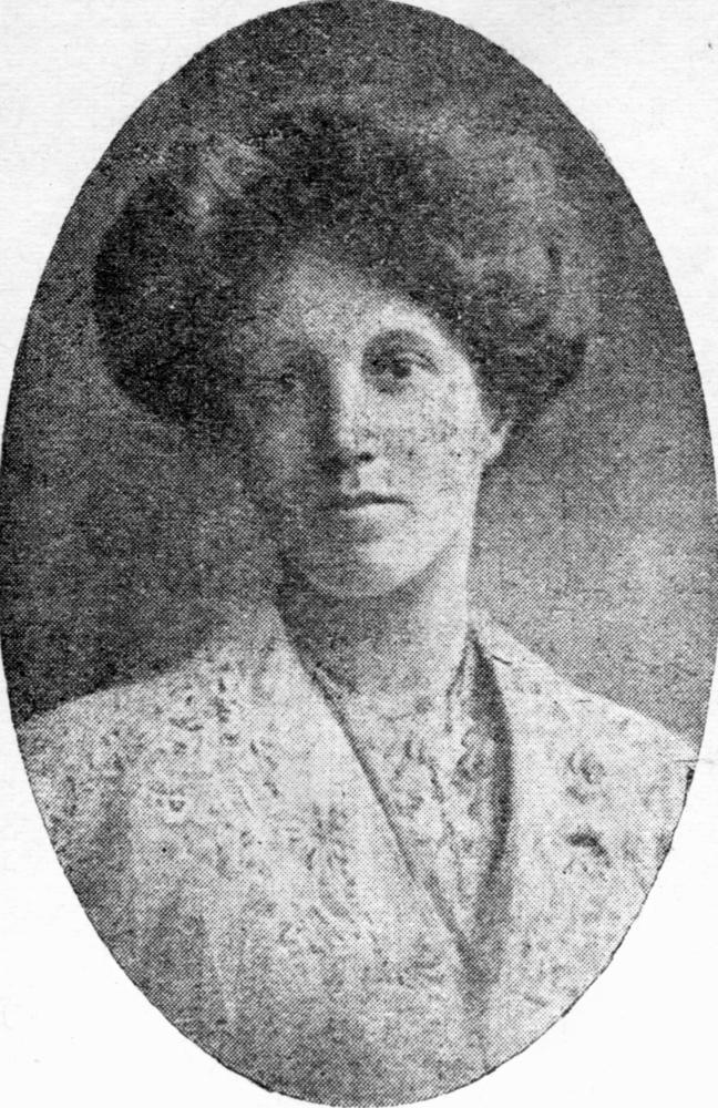 Lilian Locke-Burns. Subscript on photograph reads: The brilliant organiser and propagandist.